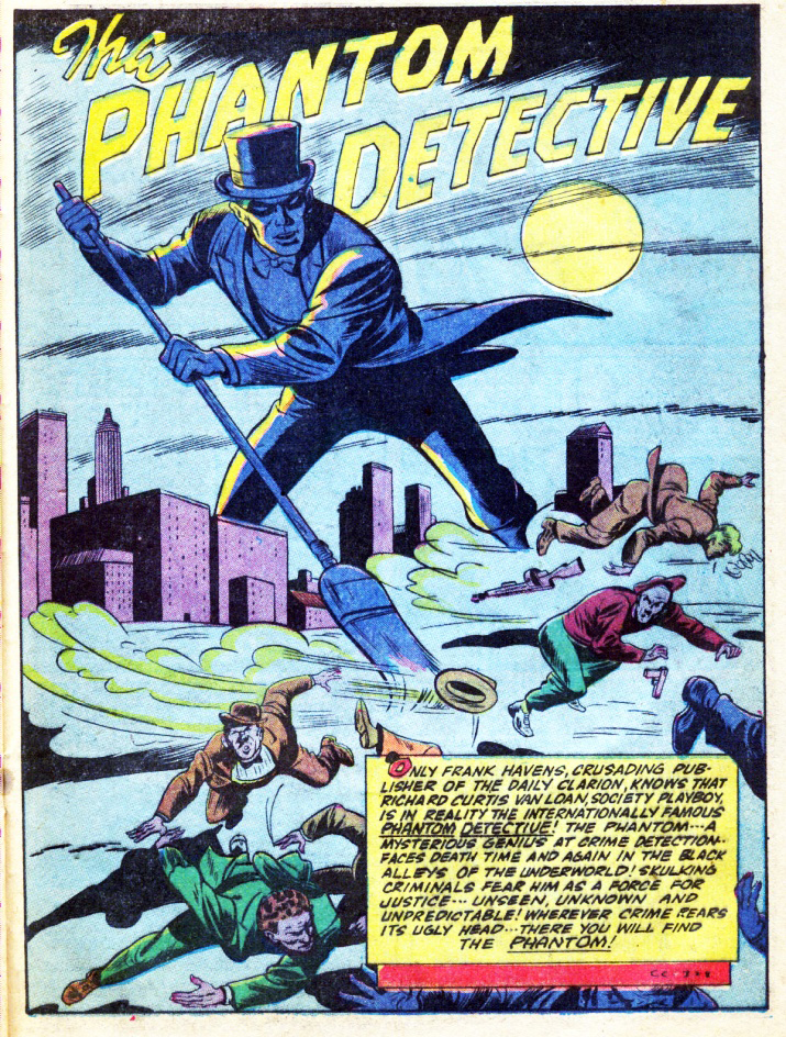 America's Best Comics #26, Page 35, May 1948